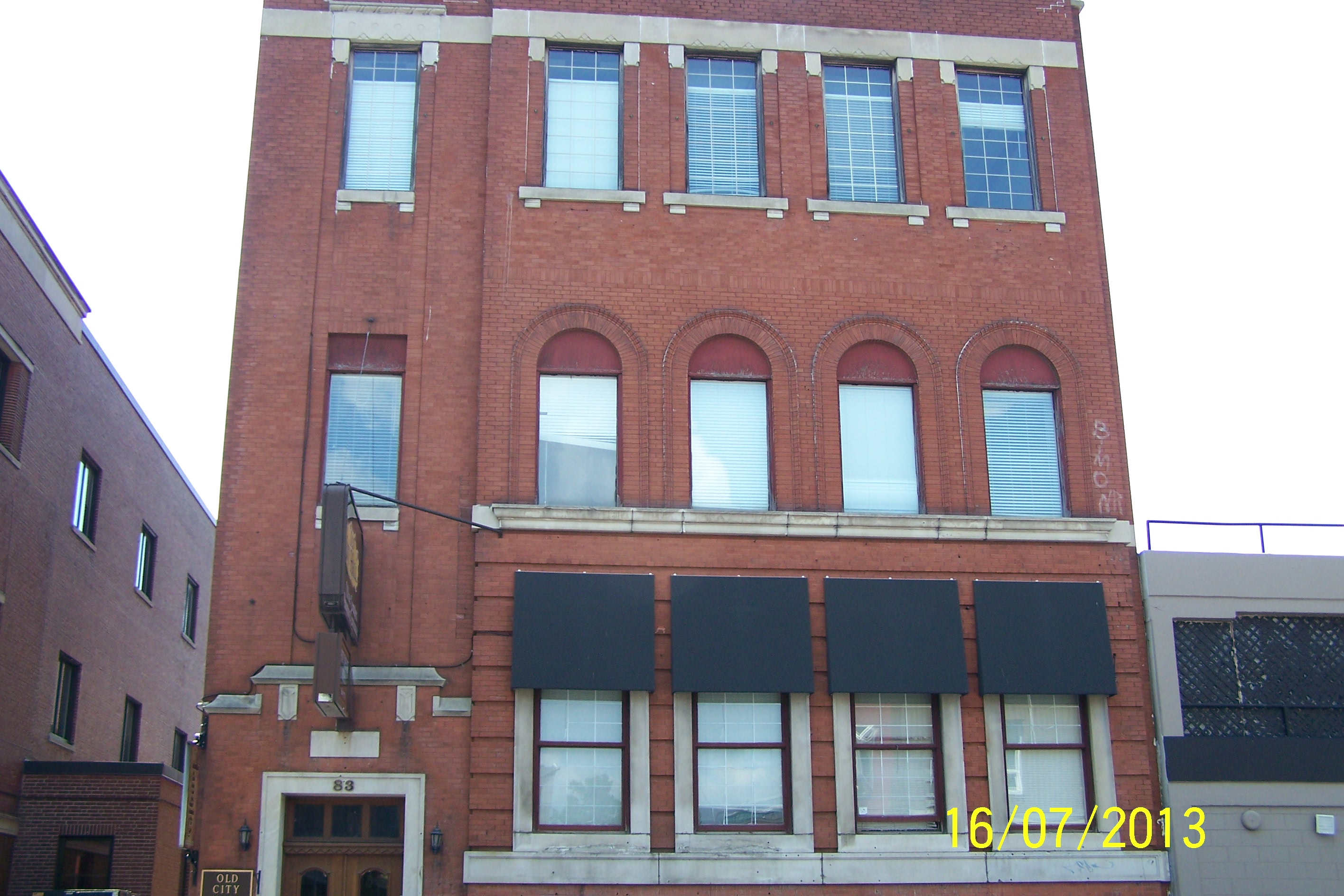 Downtown Greater Sudbury - Old City Hall